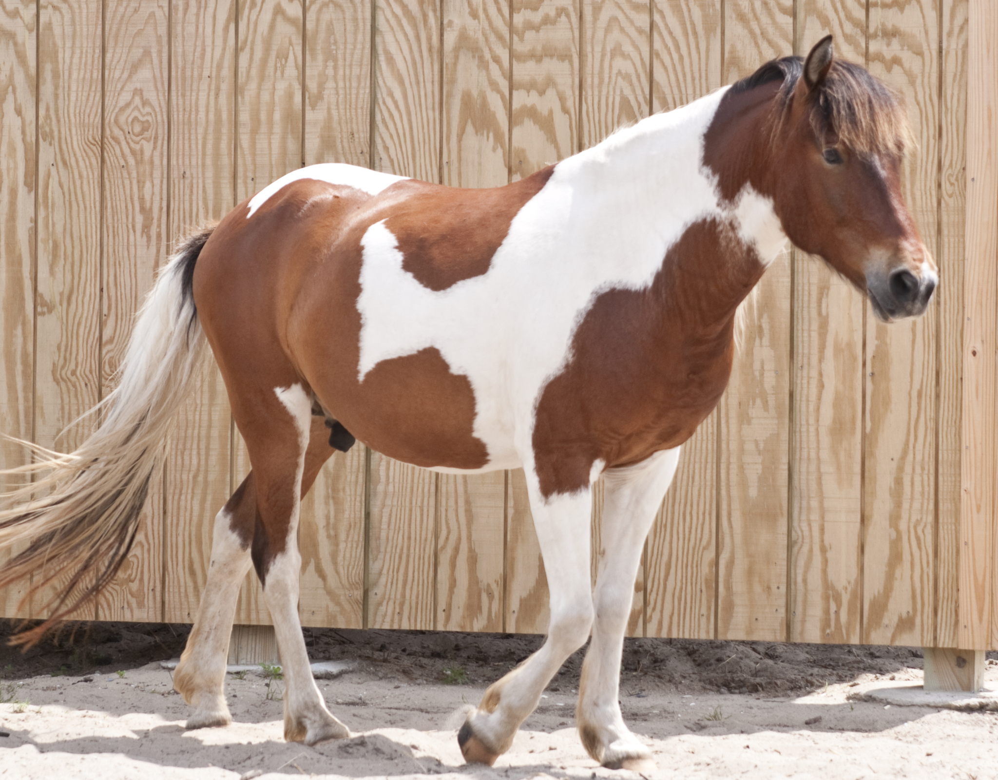 A Bankerpony at Ocracoke Island Naitonal Seashore's pony pen. The herd once ran wild but is now kept in a roadside exhibit run by the NPS.